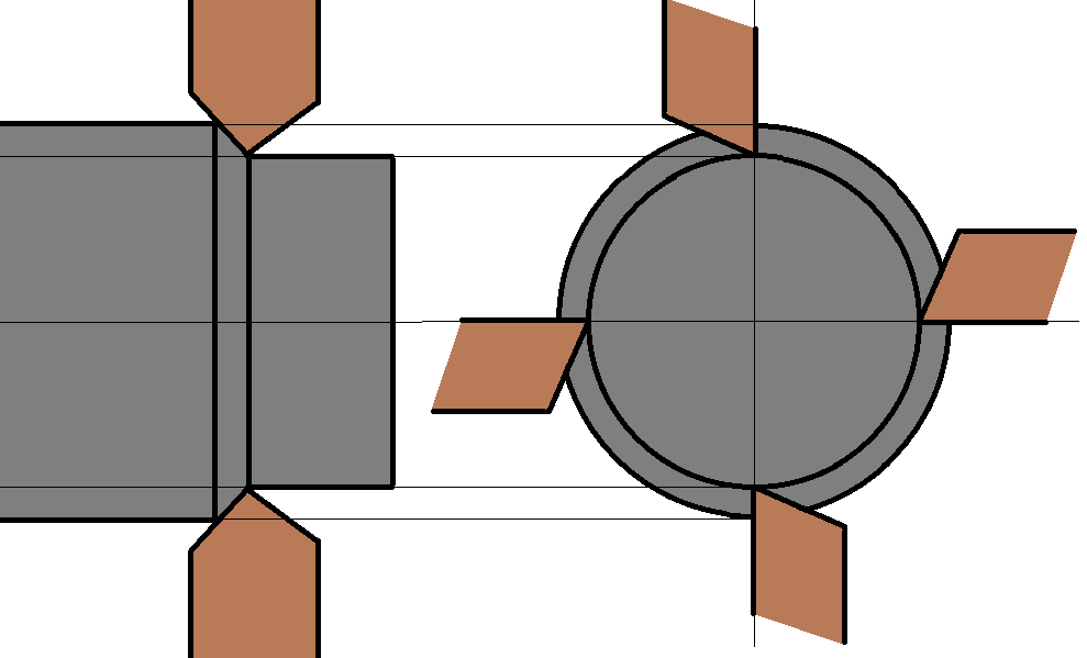 Variation of Turning